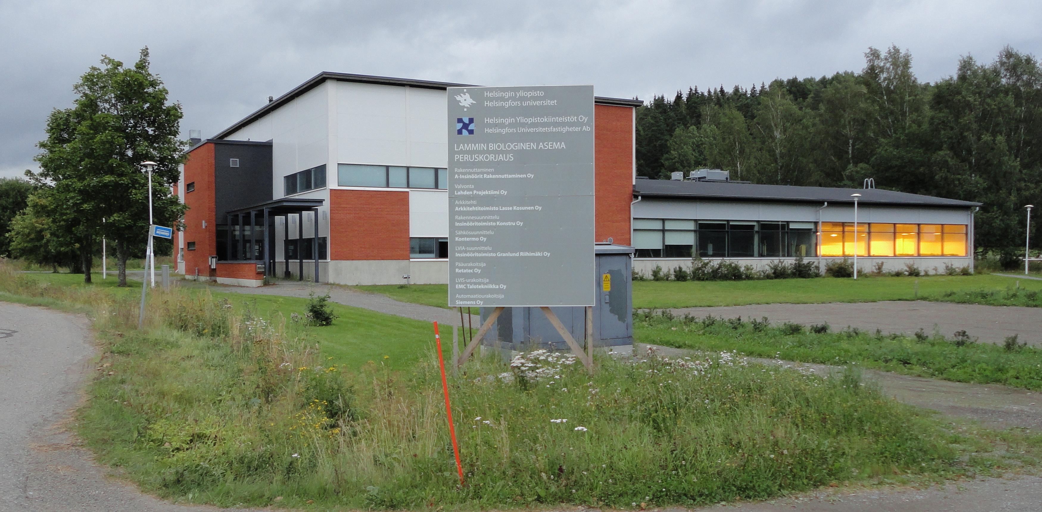 Helsinki University, Lammi Biological research center.